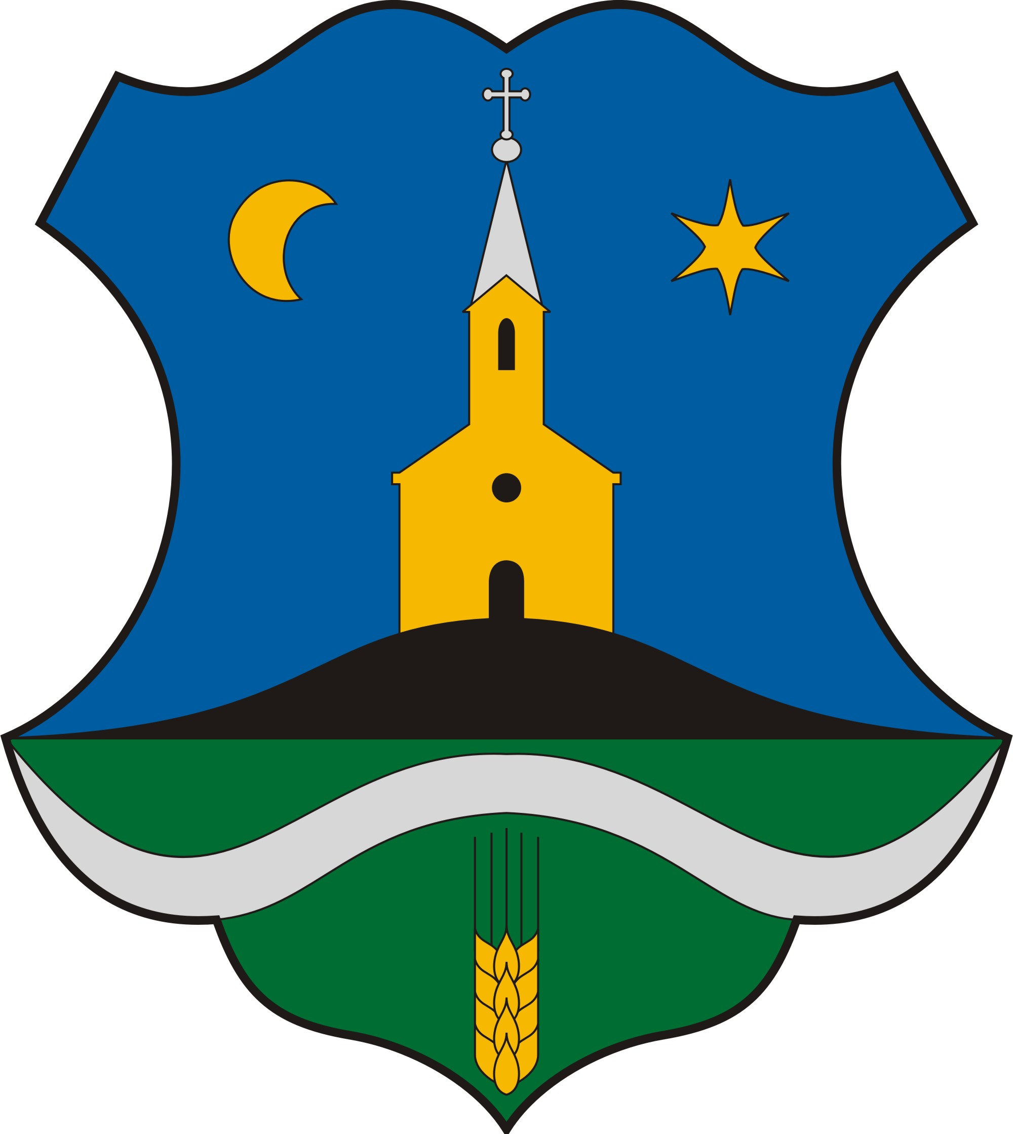 Coat of arms of Mesterszállás, Hungary